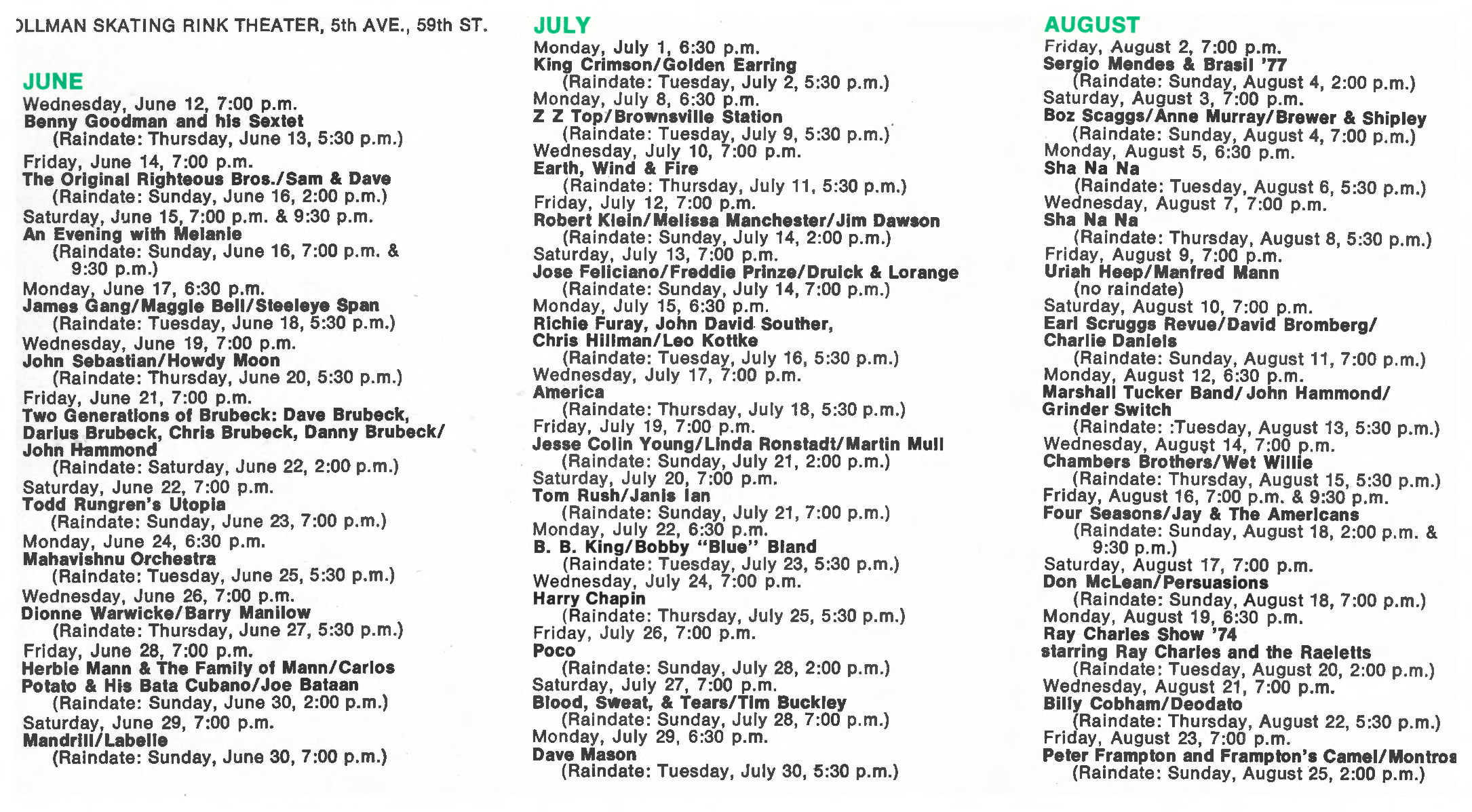 Schaefer Music Festival 1974 Concert Schedule 2 of 2